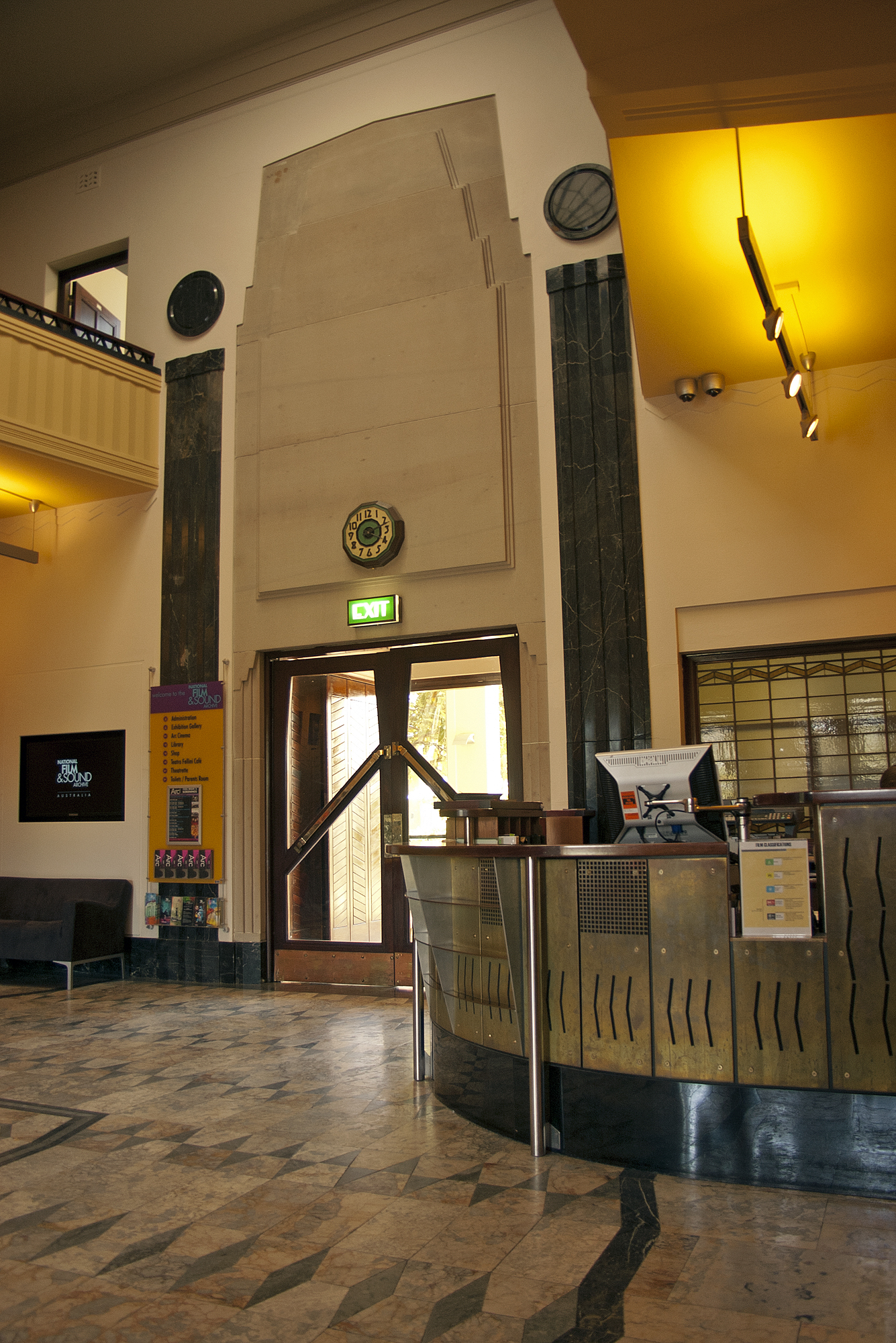 Interior of the National Film and Sound Archive.